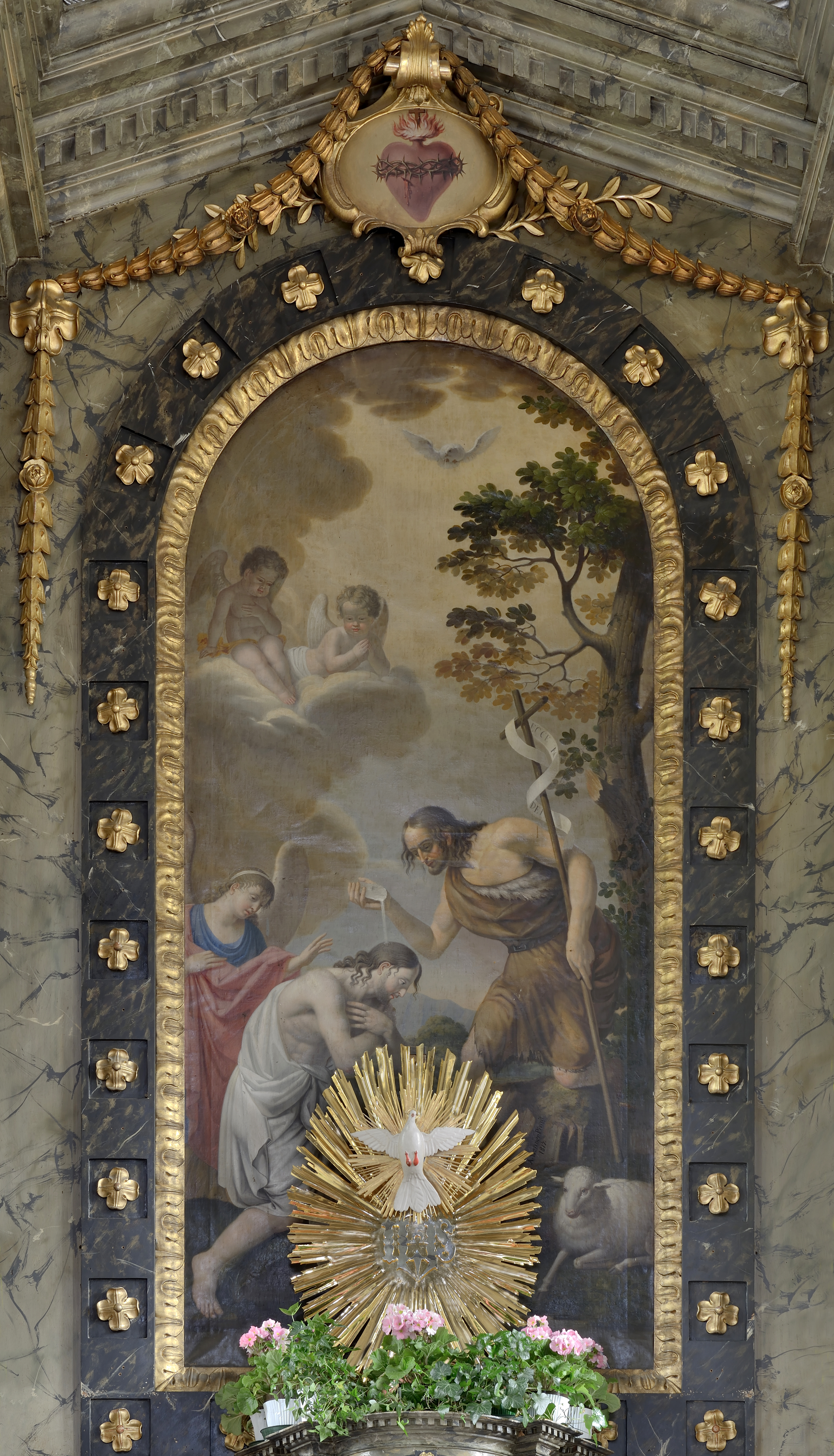 The baptism of Christ in the John the Baptist church in Völser Aicha. Signature Anton Psenner